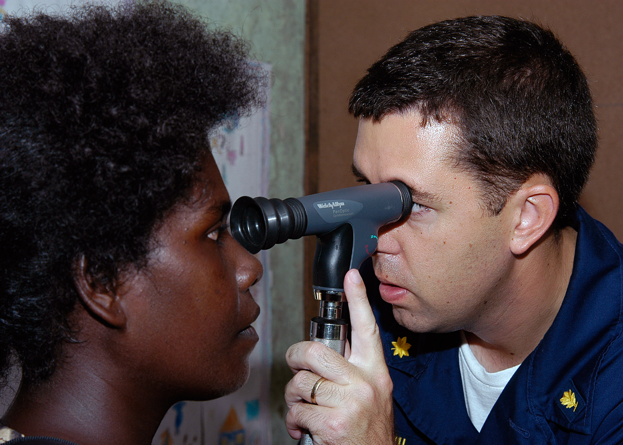 VOZA, Solomon Islands (Aug. 23, 2007) - Lt. Cmdr. Matt Behil uses a ophthalmoscope to check a local woman's eyes during a medical civic action program at Voza Medical Clinic in support of Pacific Partnership. The four-month humanitarian-assistance mission to Southeast Asia and Oceania helps to bring medical, dental and engineering programs to the people of the Solomon Islands. U.S. Navy photo by Mass Communication Specialist 3rd Class Patrick M. Kearney (RELEASED)